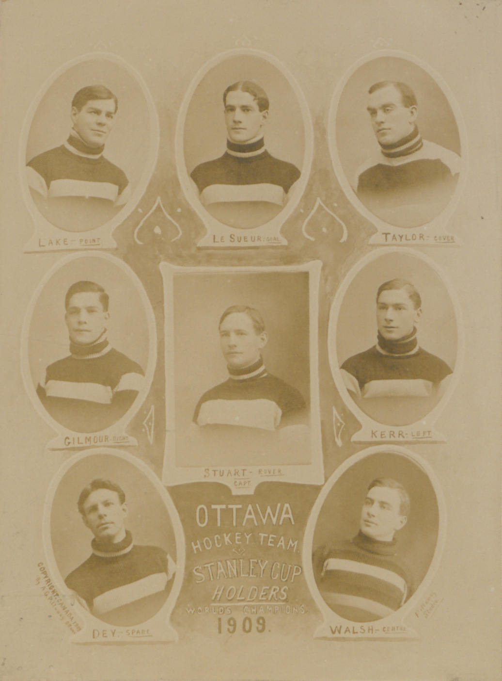 Original caption: “Ottawa hockey team, Stanley Cup holders, World Champions, 1909.”